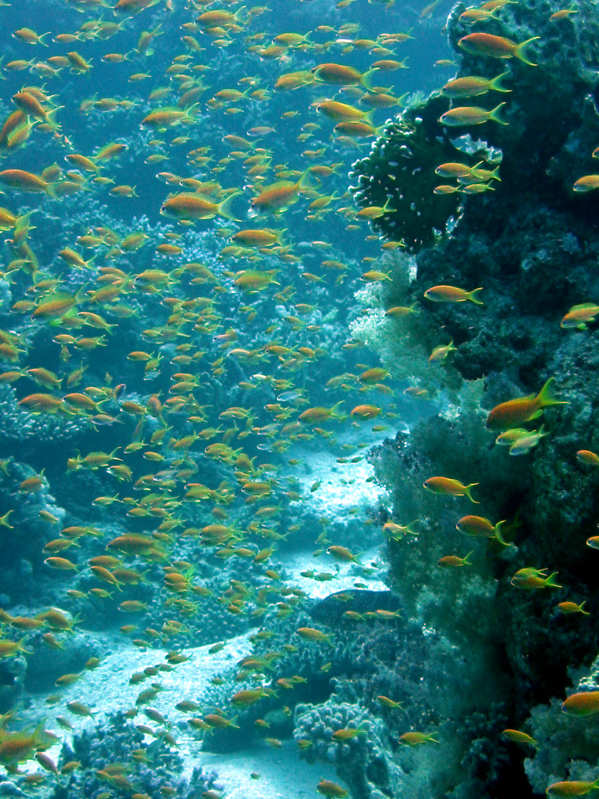 sea goldie near Dahab Egypt